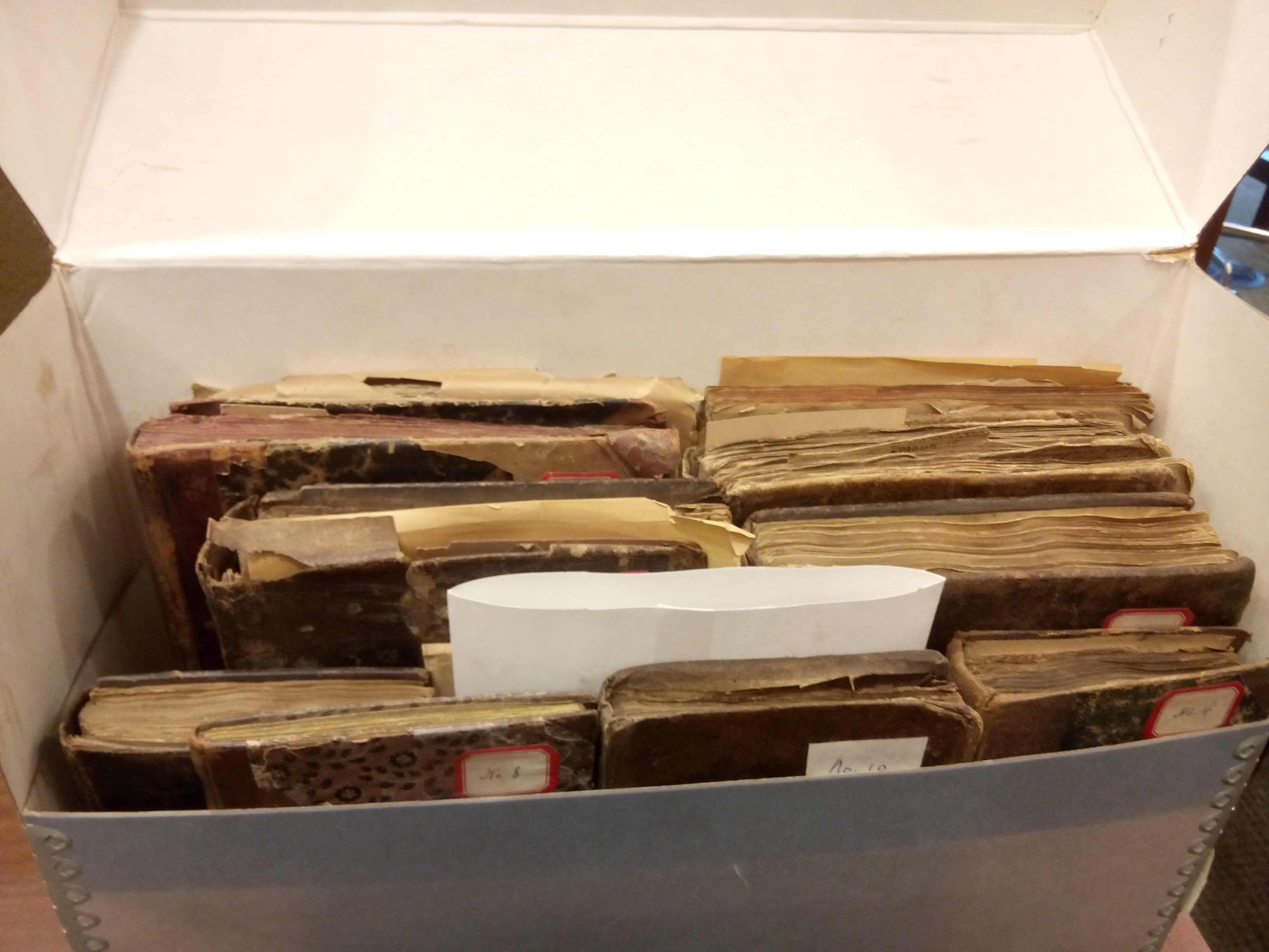 The first of the two archive boxes of manuscripts which comprise the Nikulás Ottenson collection of Icelandic manuscripts (Ms. 100, Special Collections, Milton S. Eisenhower Library, The Johns Hopkins University). See catalogue record at